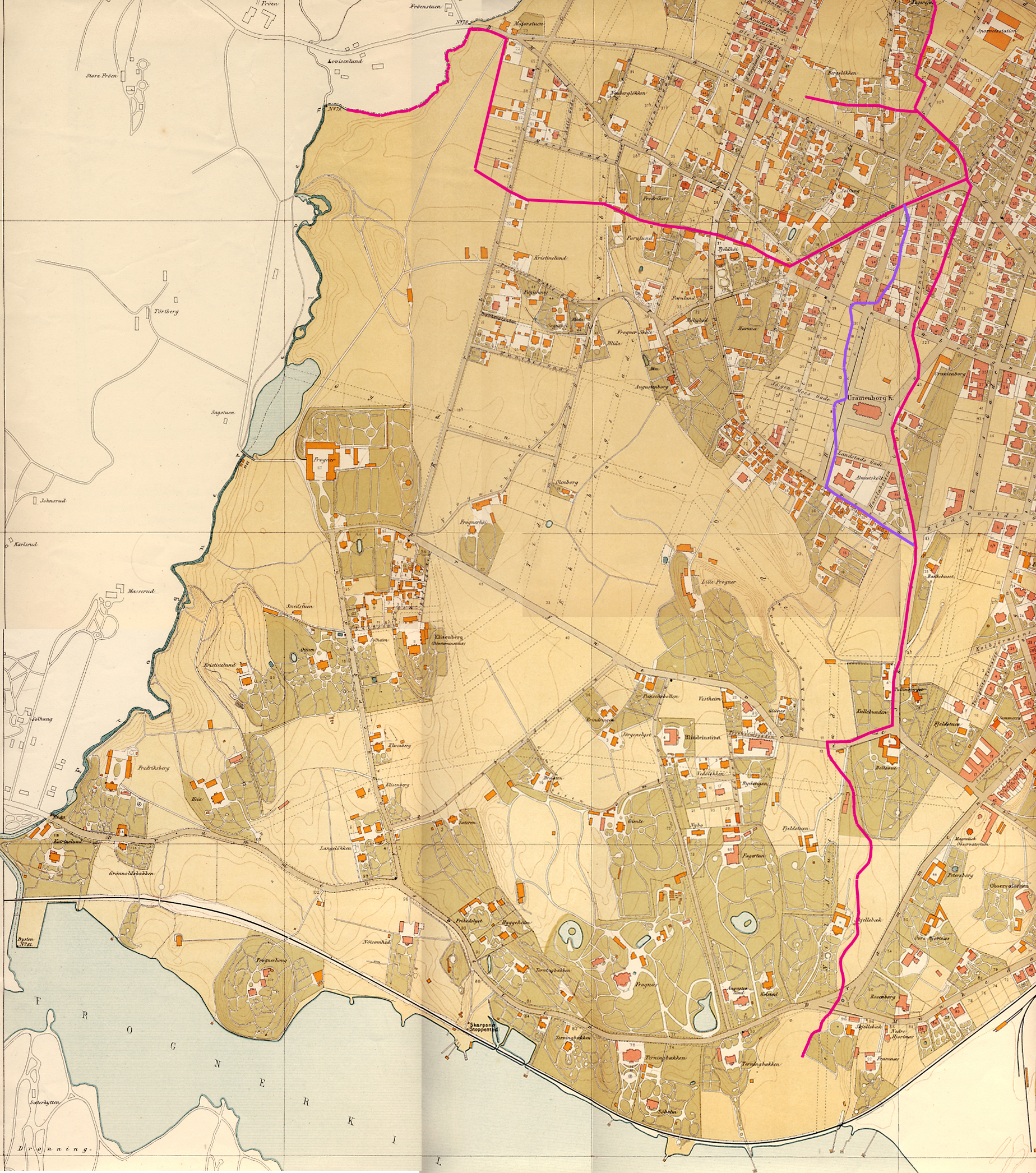 Detail of Krum's map of Christiania, 1888, with historical boundaries of Frogner shown. The red line demarcates the land claimed by Frogner before 1853. The blue line demarcates the area ceded to the city according to a court settlement in 1853.